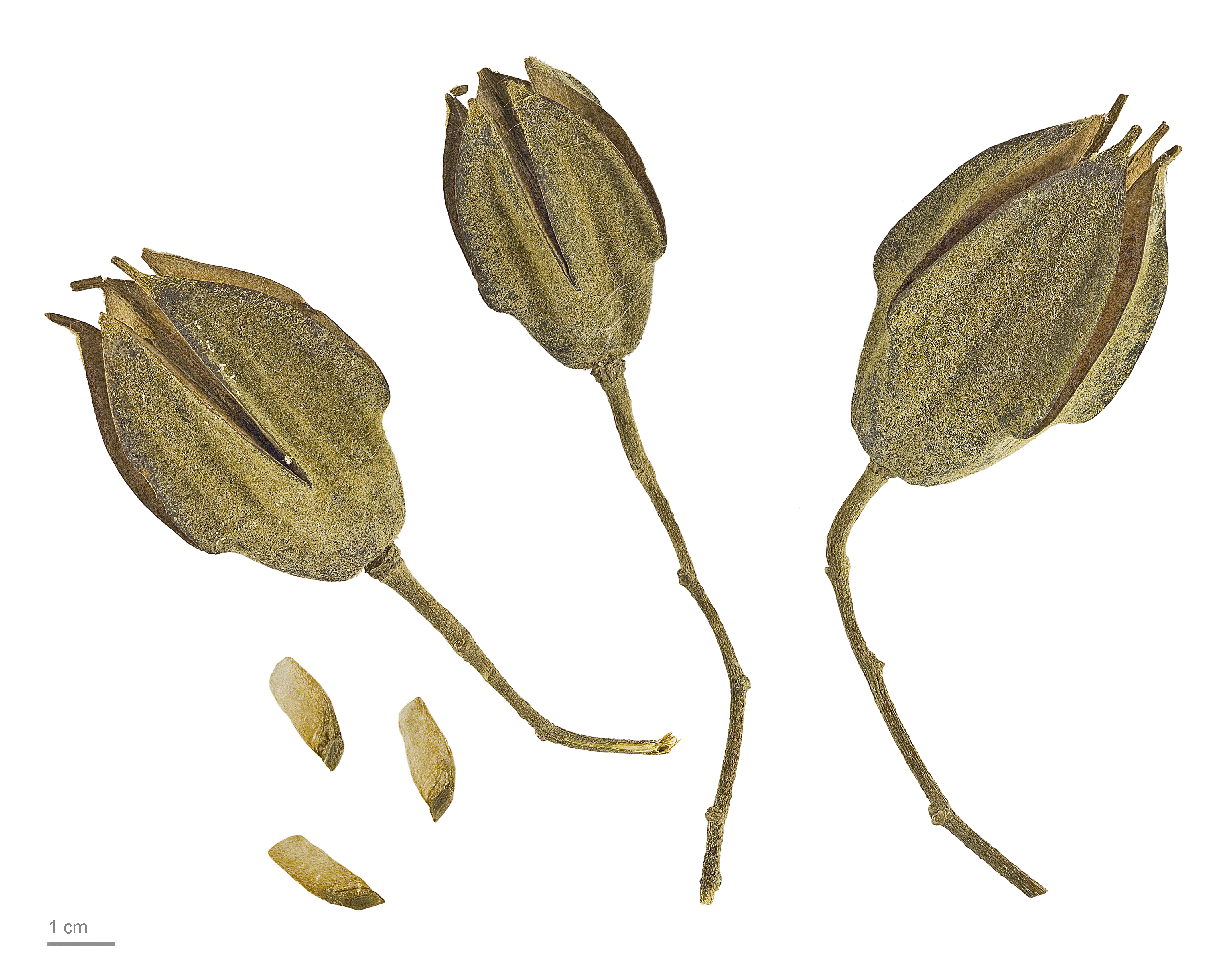 Luehea sp. , fruits and seeds